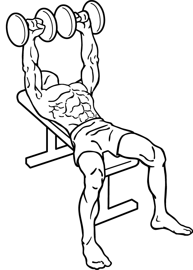 an exercise of chest